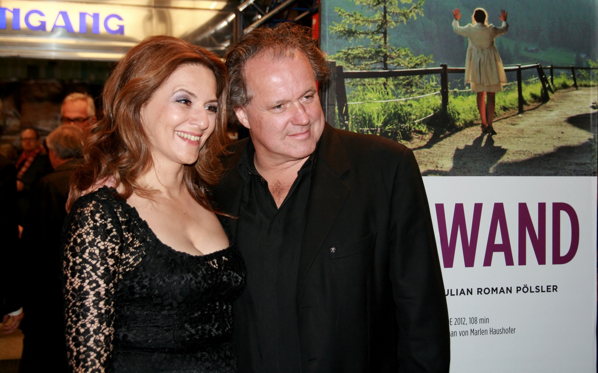 Martina Gedeck and Julian Pölsler at the Austrian premiere of Die Wand (The Wall) at Gartenbaukino in Vienna, Austria.